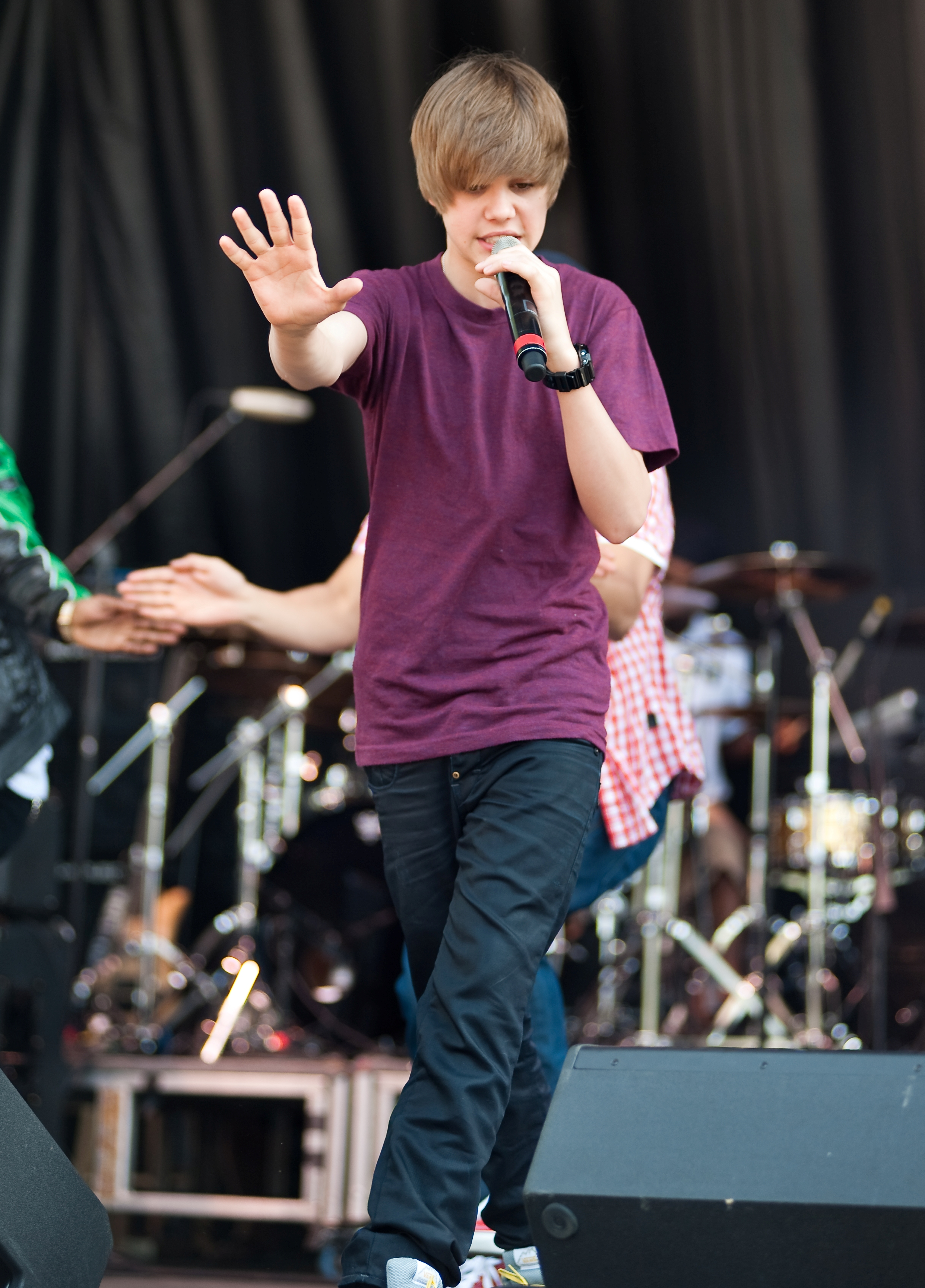 Justin Bieber at the 2010 White House Easter Egg roll